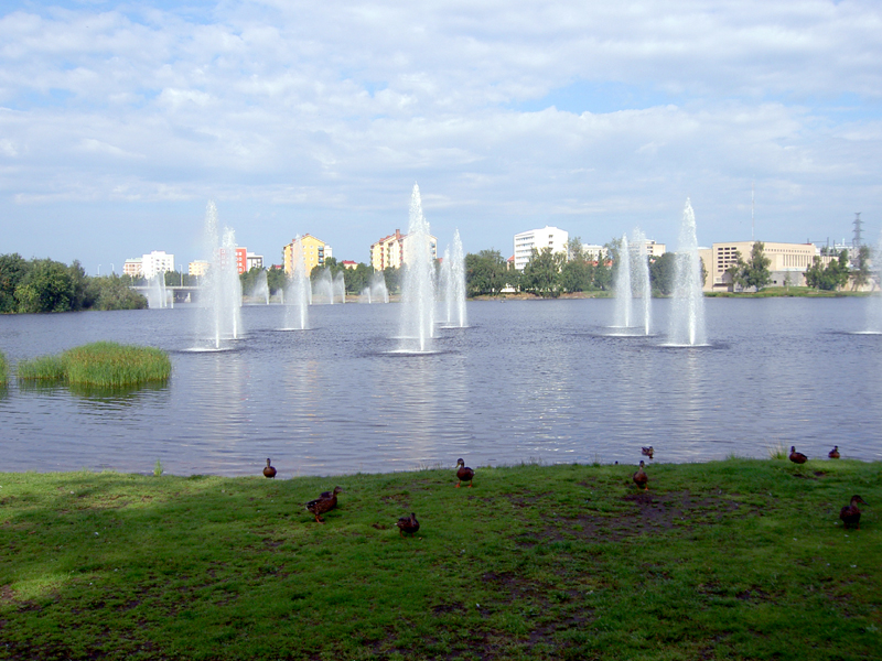 Fountains in Oulu, Finland.